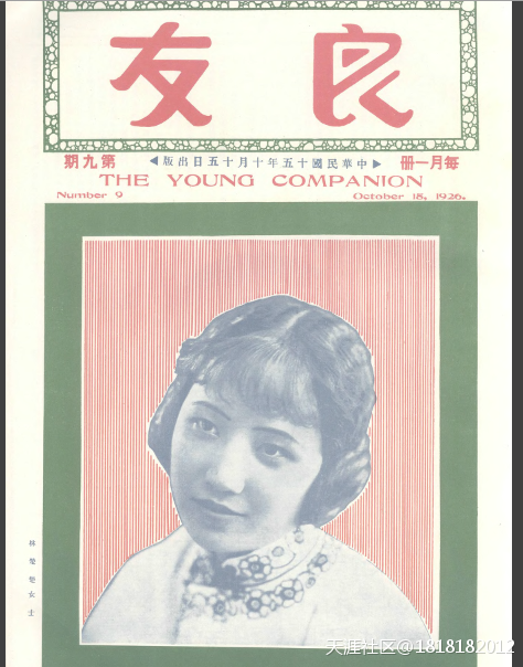 Actress Lin Chuchu (林楚楚) (movie Rouge) on the cover of Liangyou magazine #9.